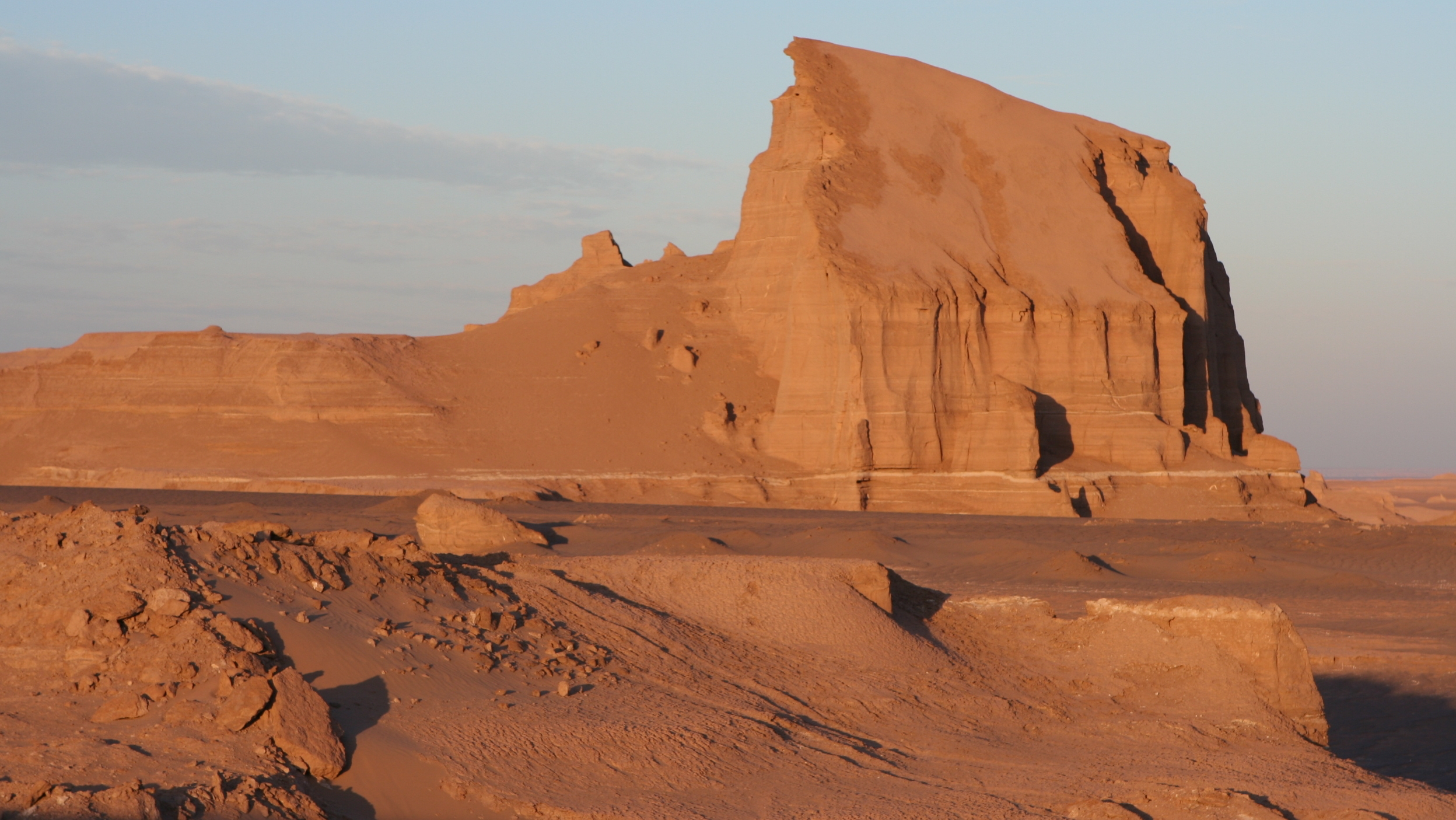 The Lut Desert in Kerman Province, Iran